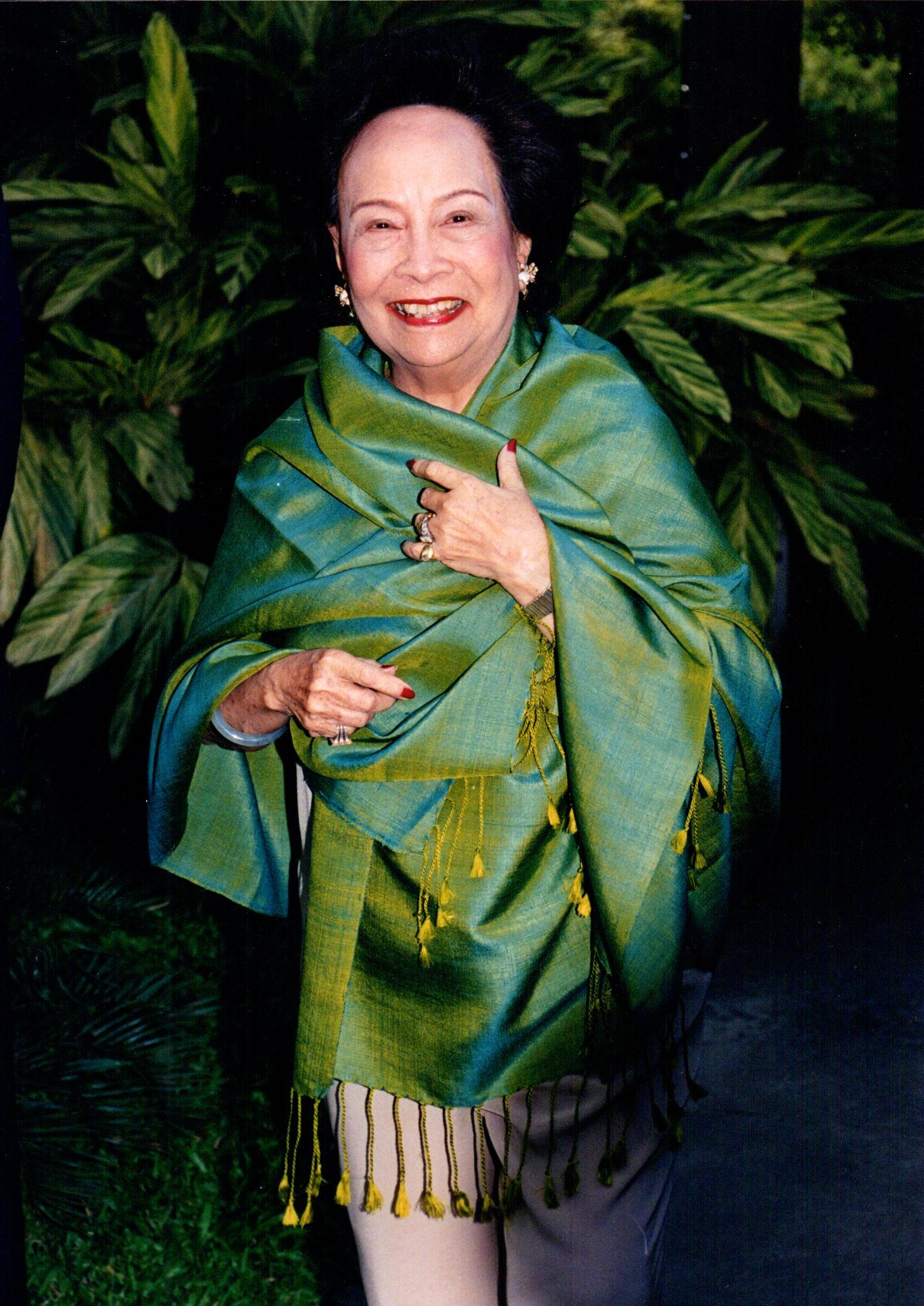 Picture of Thanpuying Lursakdi in 1995